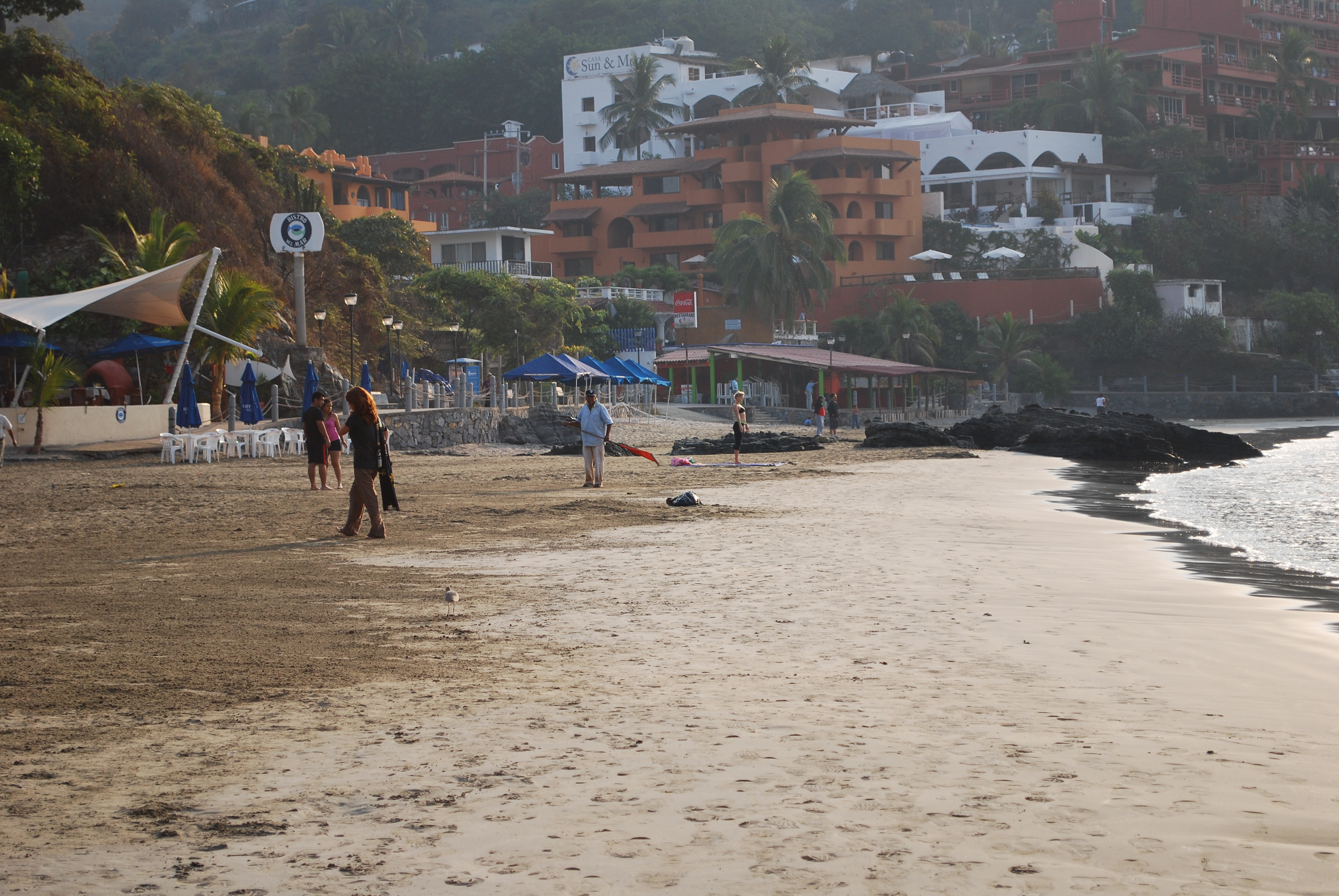 Portion of Playa Madera in Zihuatanejo, Mexico